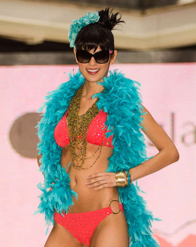 Shop a Le'a Bikini Fashion Show